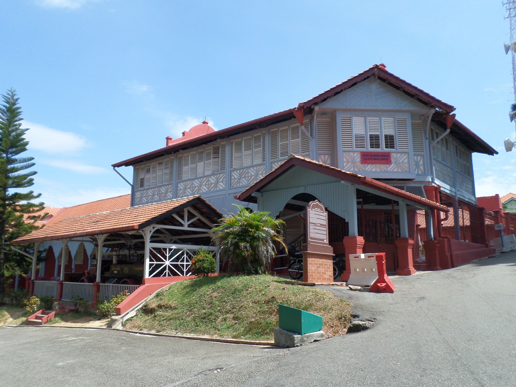 Gallery of Admiral Cheng Ho, Central Malacca, Malacca, MalaysiaBahasa Melayu: Galeri Laksamana Cheng Ho, Melaka Tengah, Melaka, Malaysia